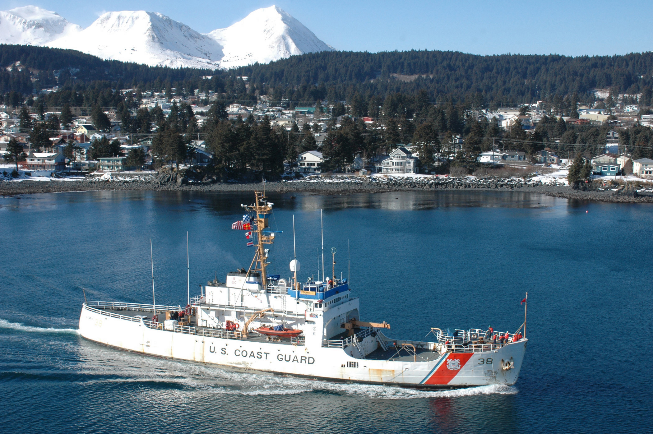 The Coast Guard Cutter USCGC Storis (WMEC-38) heads out into open water as it departs Kodiak, Alaska, for the last time March 12, 2007. The Storis was decommissioned February 8, 2007 after more than 64 years of service.